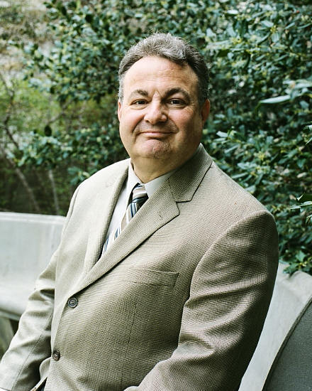 Photograph of Wolfgang G. Schwanitz.